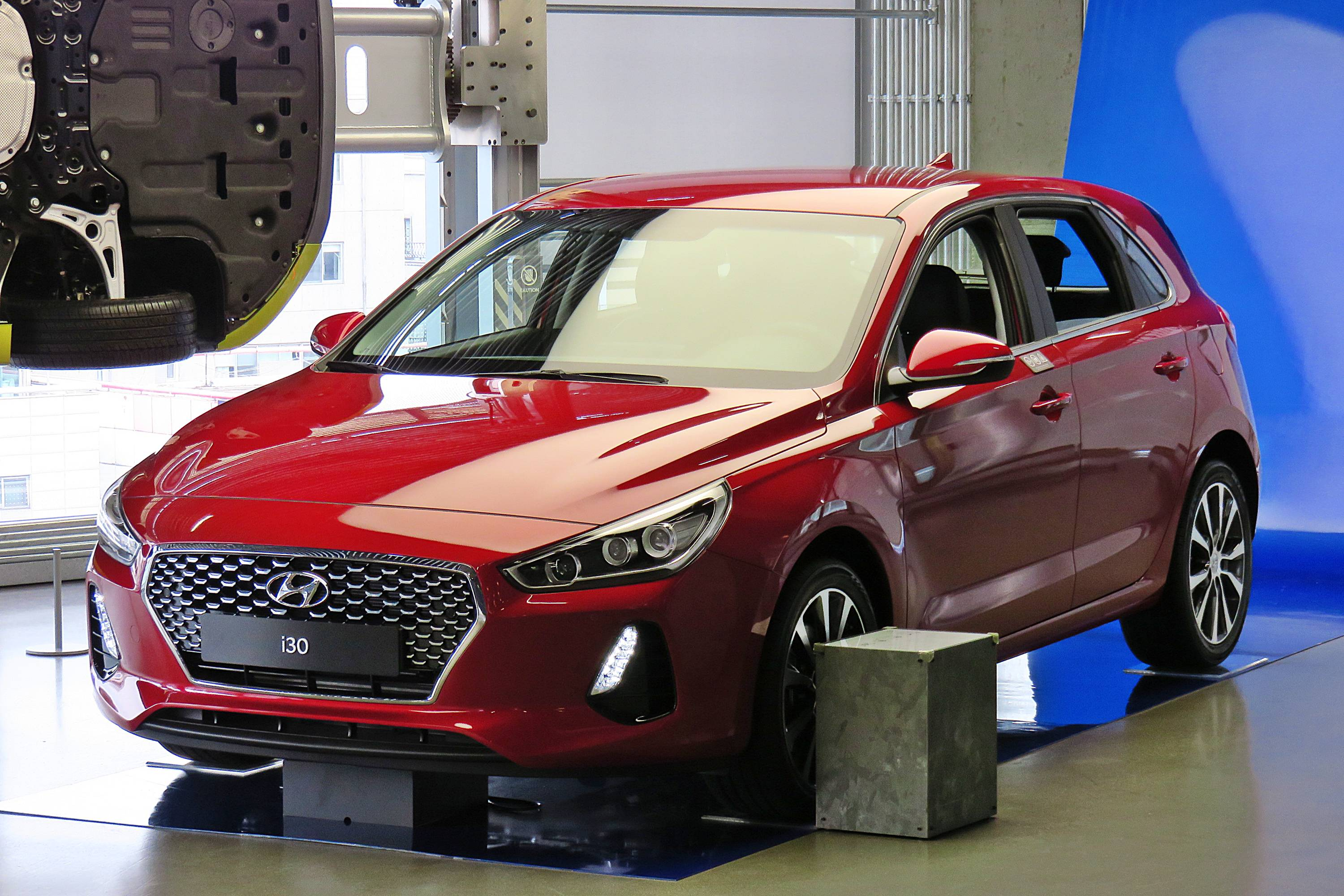 Hyundai i30(PD)